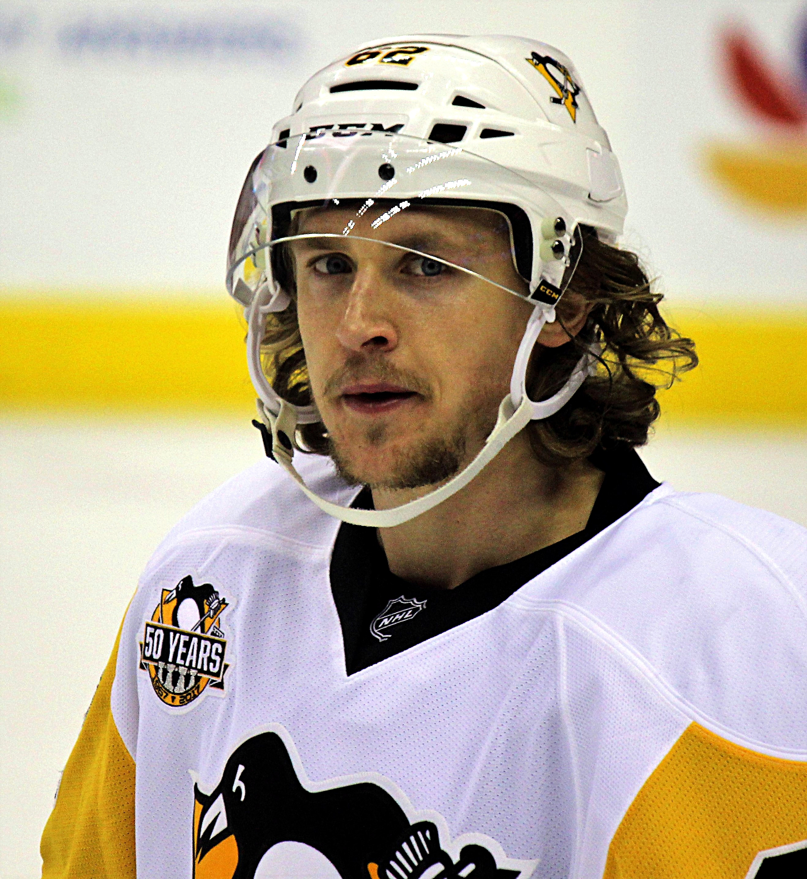 Pittsburgh Penguins forward Carl Hagelin during a playoff game against the Washington Capitals, May 6, 2017, at Verizon Center in Washington, D.C.